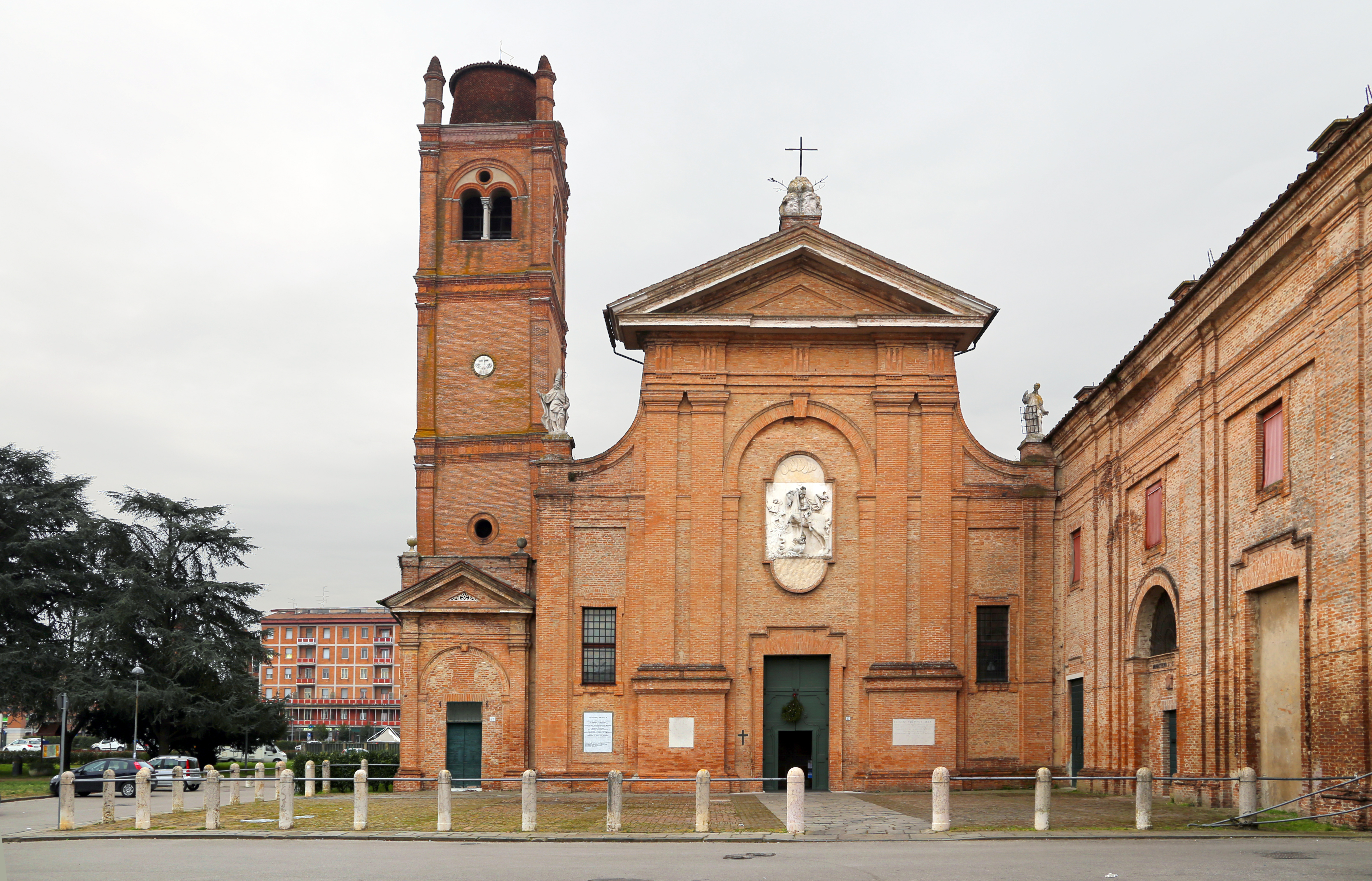 San Giorgio fuori le Mura (Ferrara)